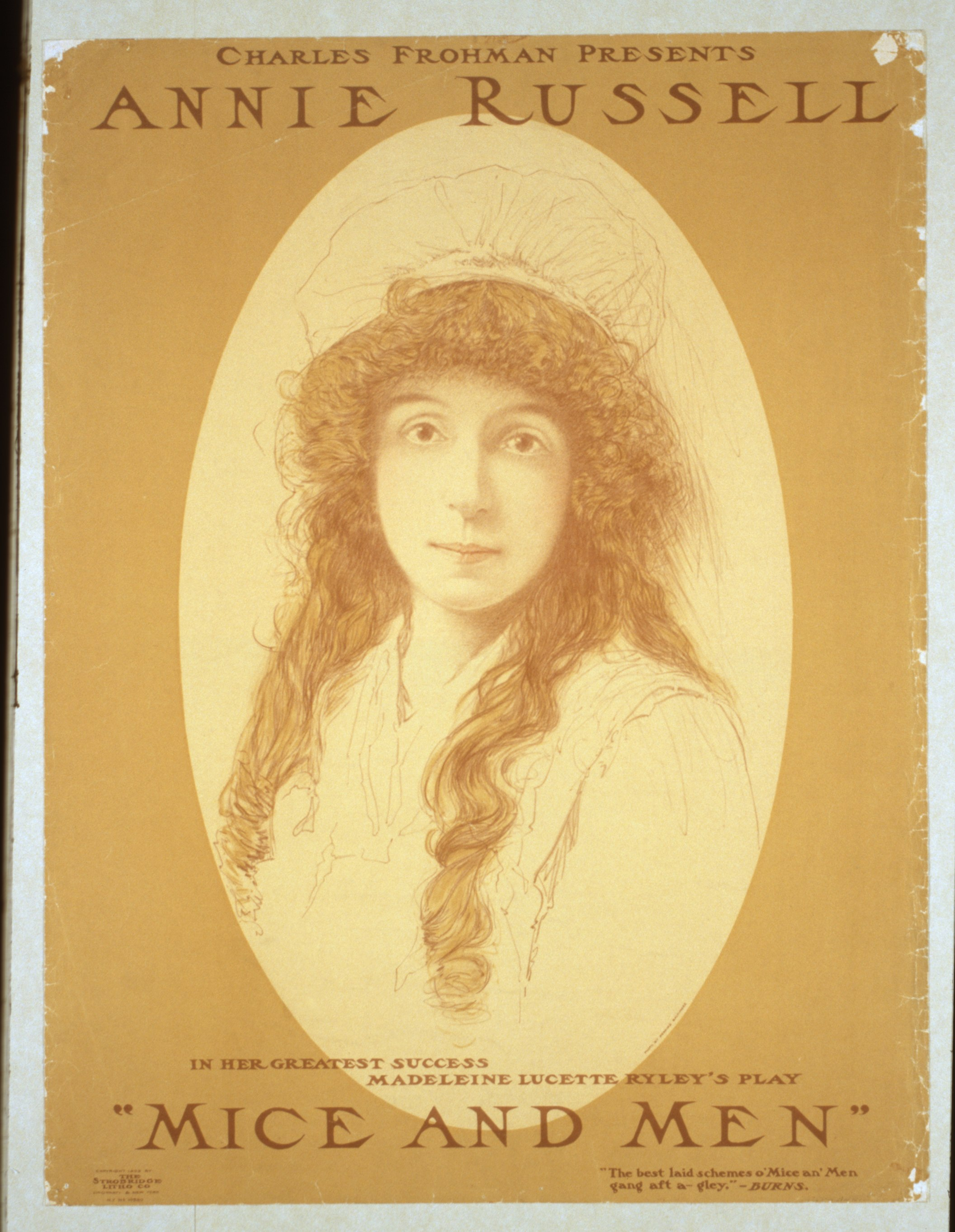 Title: Charles Frohman presents Annie Russell in her greatest succuss Madeleine Lucette Ryley's play, Mice and men Abstract/medium: 1 print : color lithograph ; sheet 83 x 63 cm. (poster format)